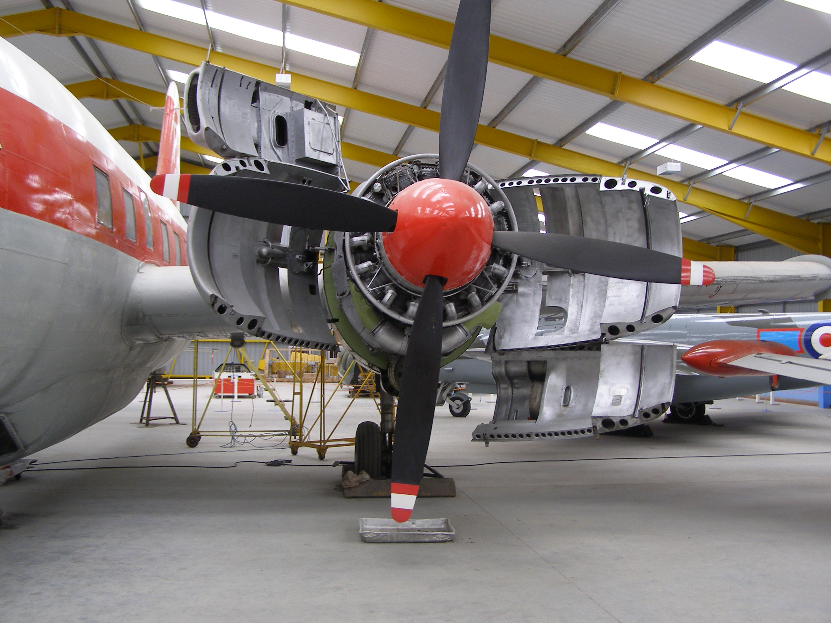 Royal Air Force Vickers Varsity T1 serial number WF369 on display at the Newark Air Museum, England